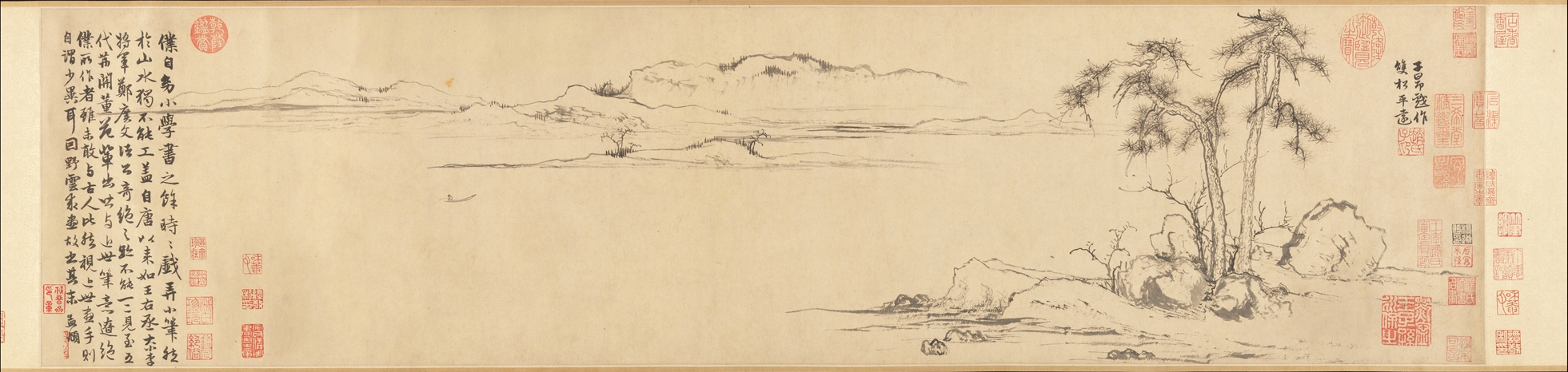 Zhao Mengfu Twin Pines, Level Distance, ca. 1310 (26.8 x 107.5 cm);The Metropolitan Museum of Art, New York